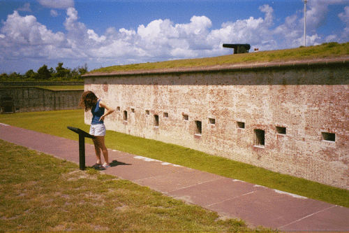 Author: Nathan Gess Shot in August of 2002. Tourist pictured is Ashley Gornik of Latrobe, PA. Ms. Gornik is now as seasonal historian for Fort Macon as of 2005.